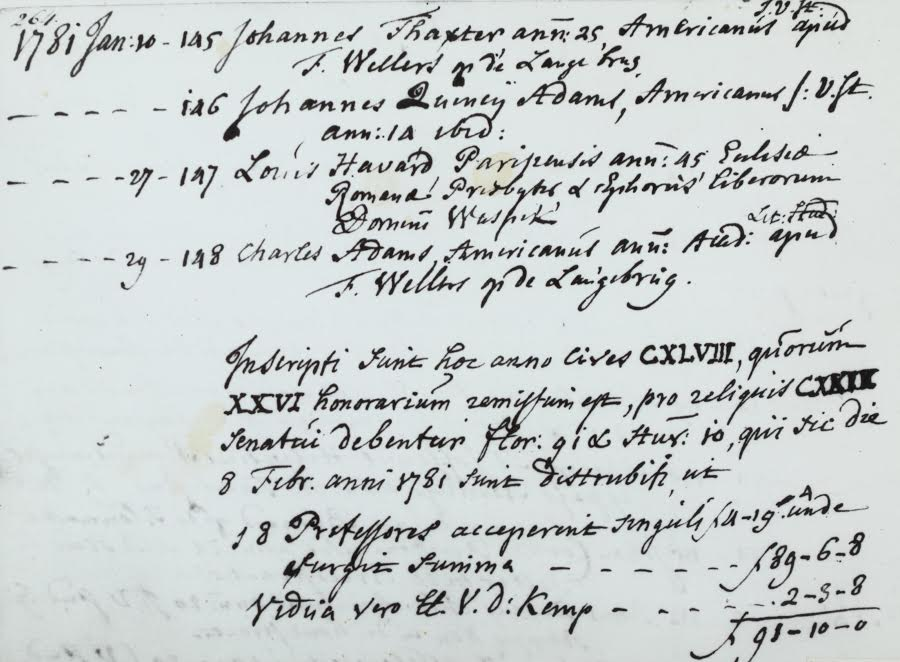 John Quincy Adams registered as student at Leiden University (the Netherlands), January 1781